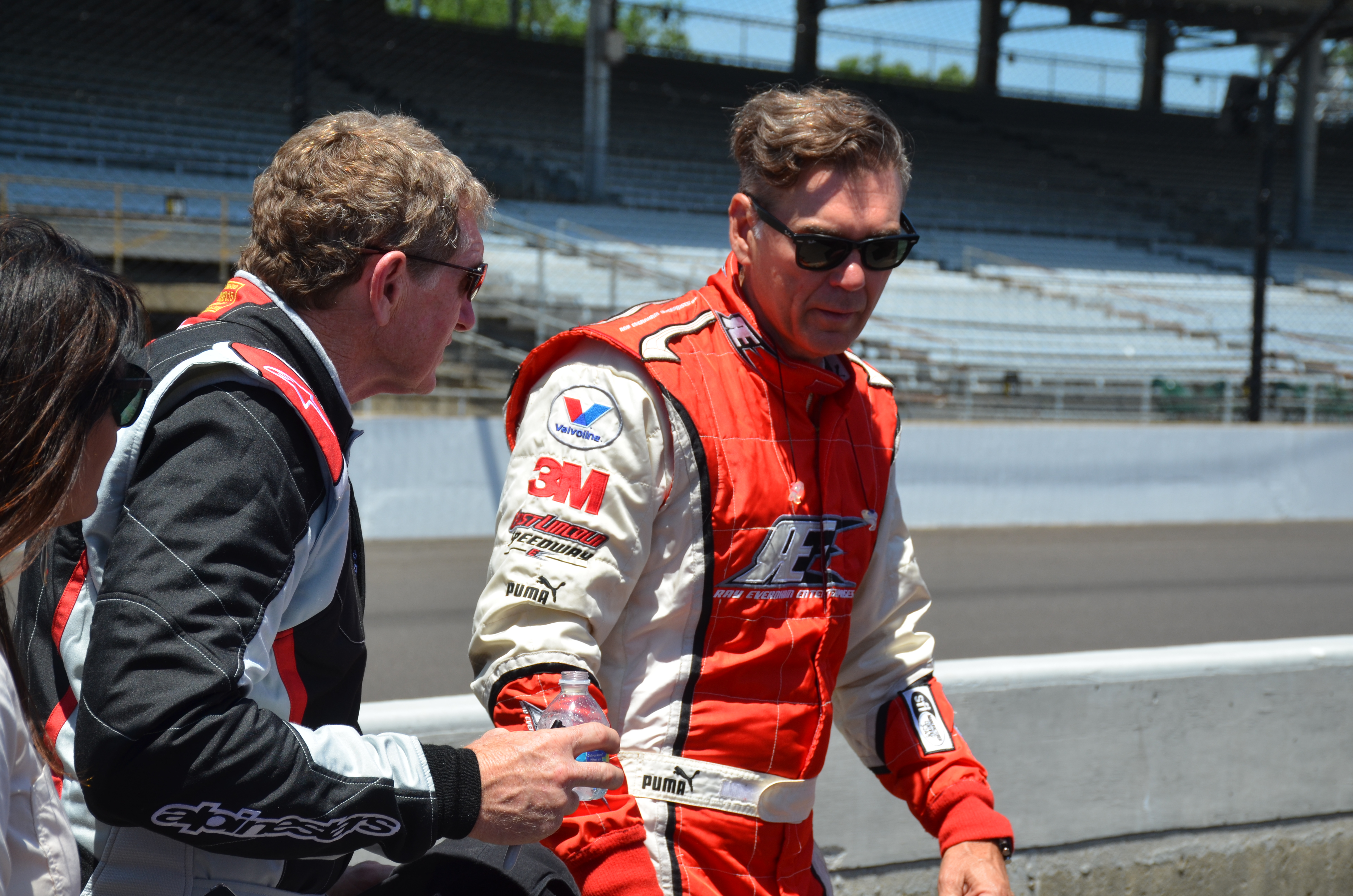 Ray Evernham at the 2016 Brickyard SVRA Pro-Am race at the Indianapolis Motor Speedway.